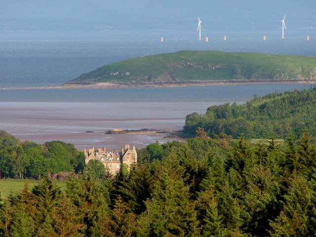 Orchardton House with Hestan and Windfarm. As seen from halfway up Screel hill. The Robin Rigg Windfarm is still under construction. Other views: 1337444